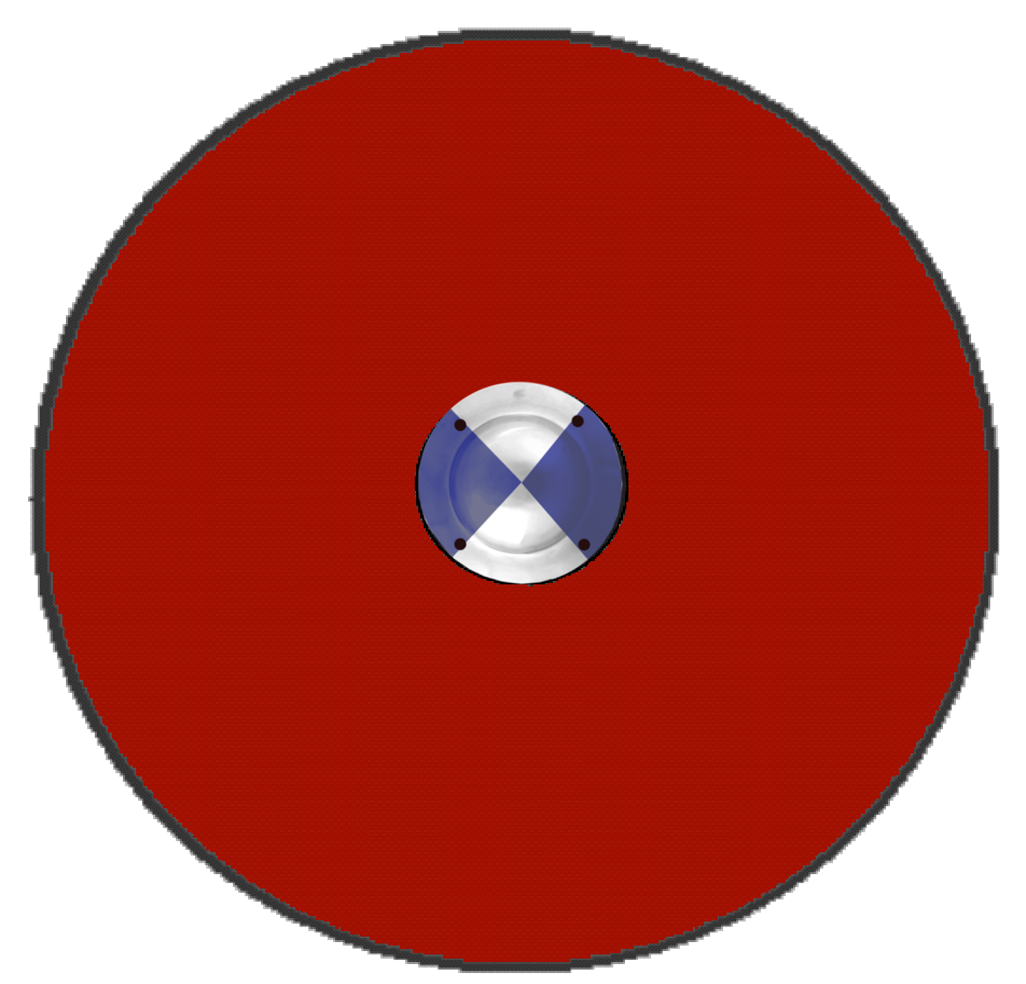 Shield pattern o.t. Equites promoti seniores, a vexillationes palatinae in the Magister Equitum's cavalry list, in the Notitia Dignitatum occ. assigned to the Magister Peditum's Italian command.